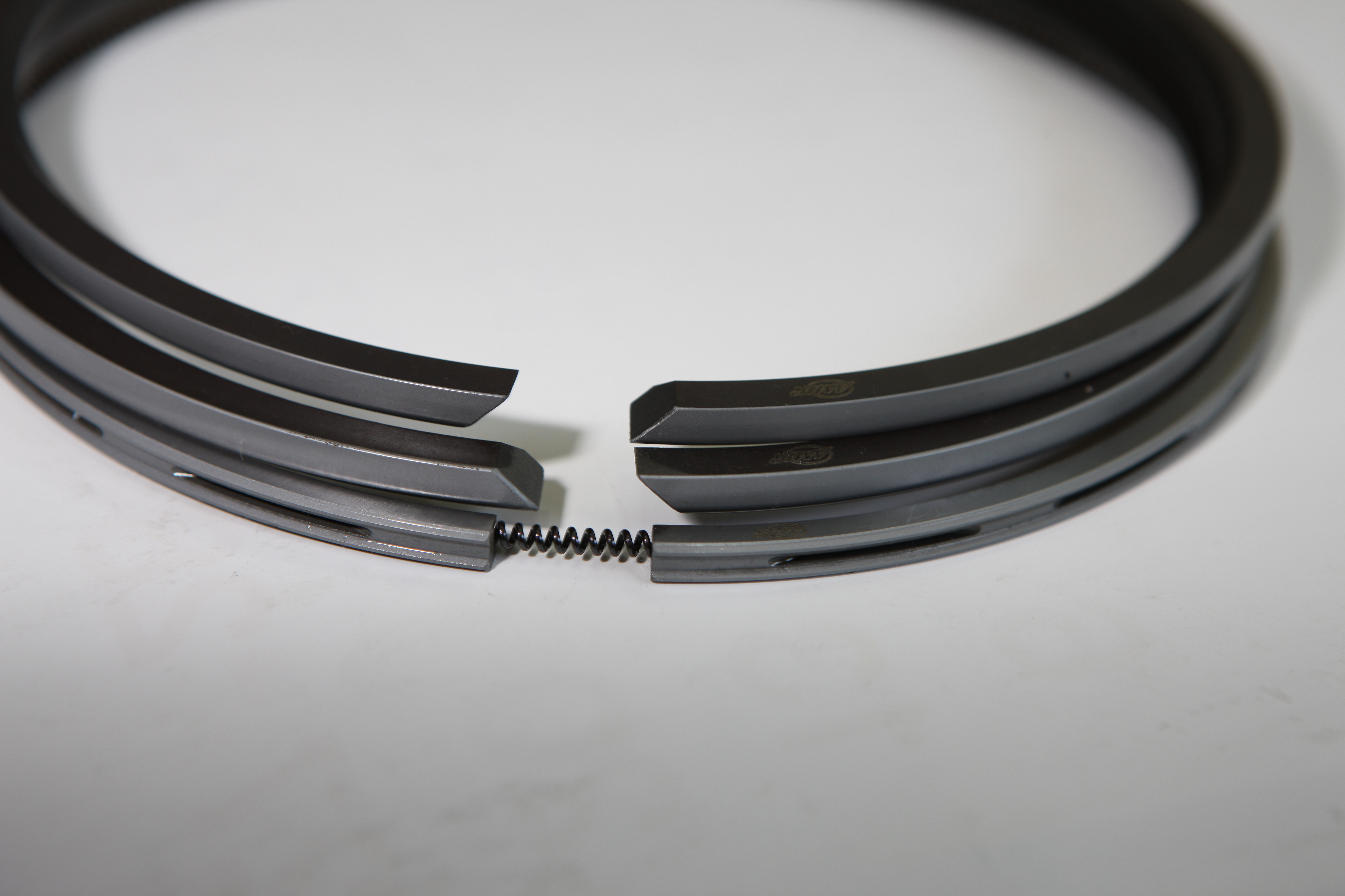 AMIR-PISTON RING-5